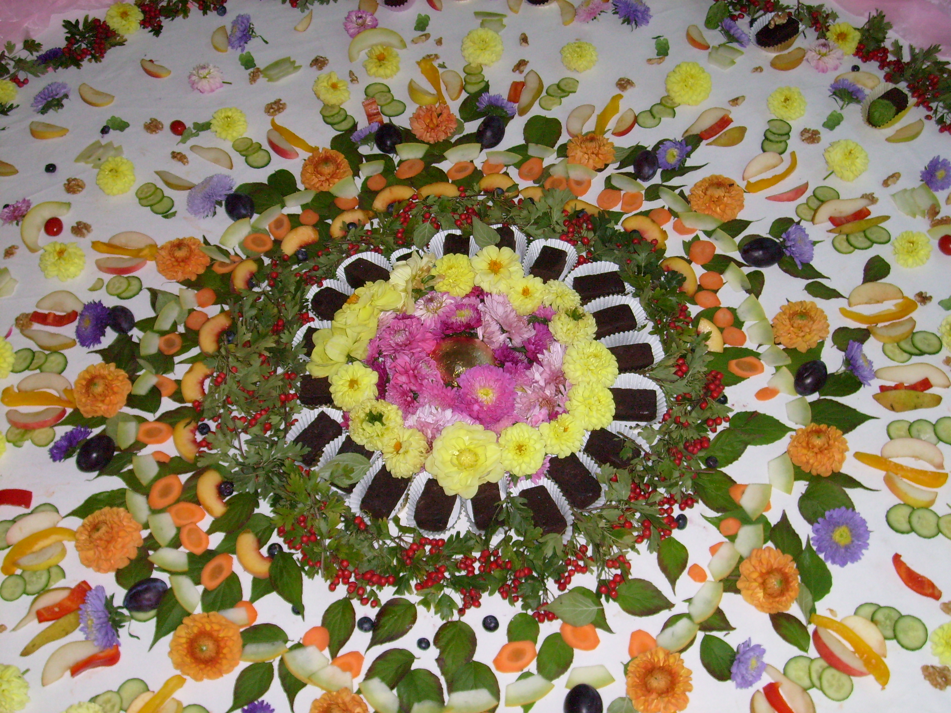 Mandala of fruits and flowers - made by children in a birthday party